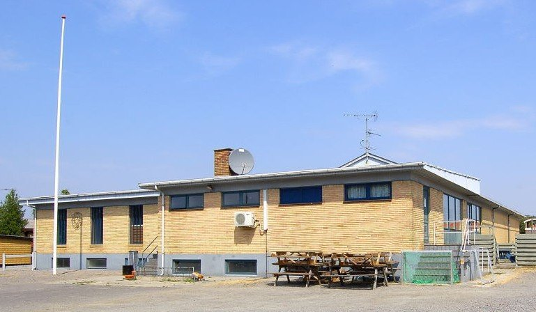 Clubhouse of Hasle IF sports association of Denmark